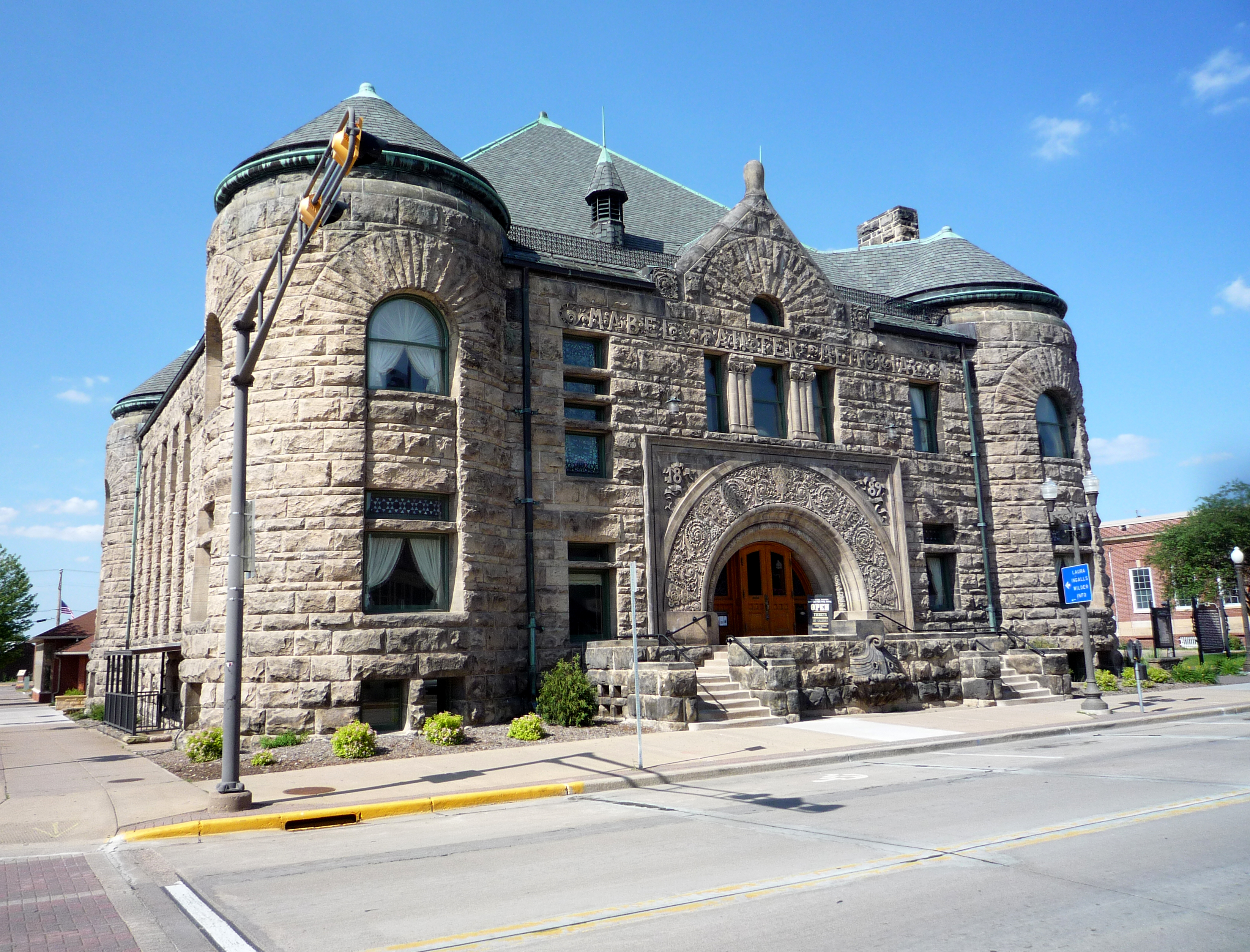 Mable Tainter Theater, Menomonie, Wisconsin, USA.